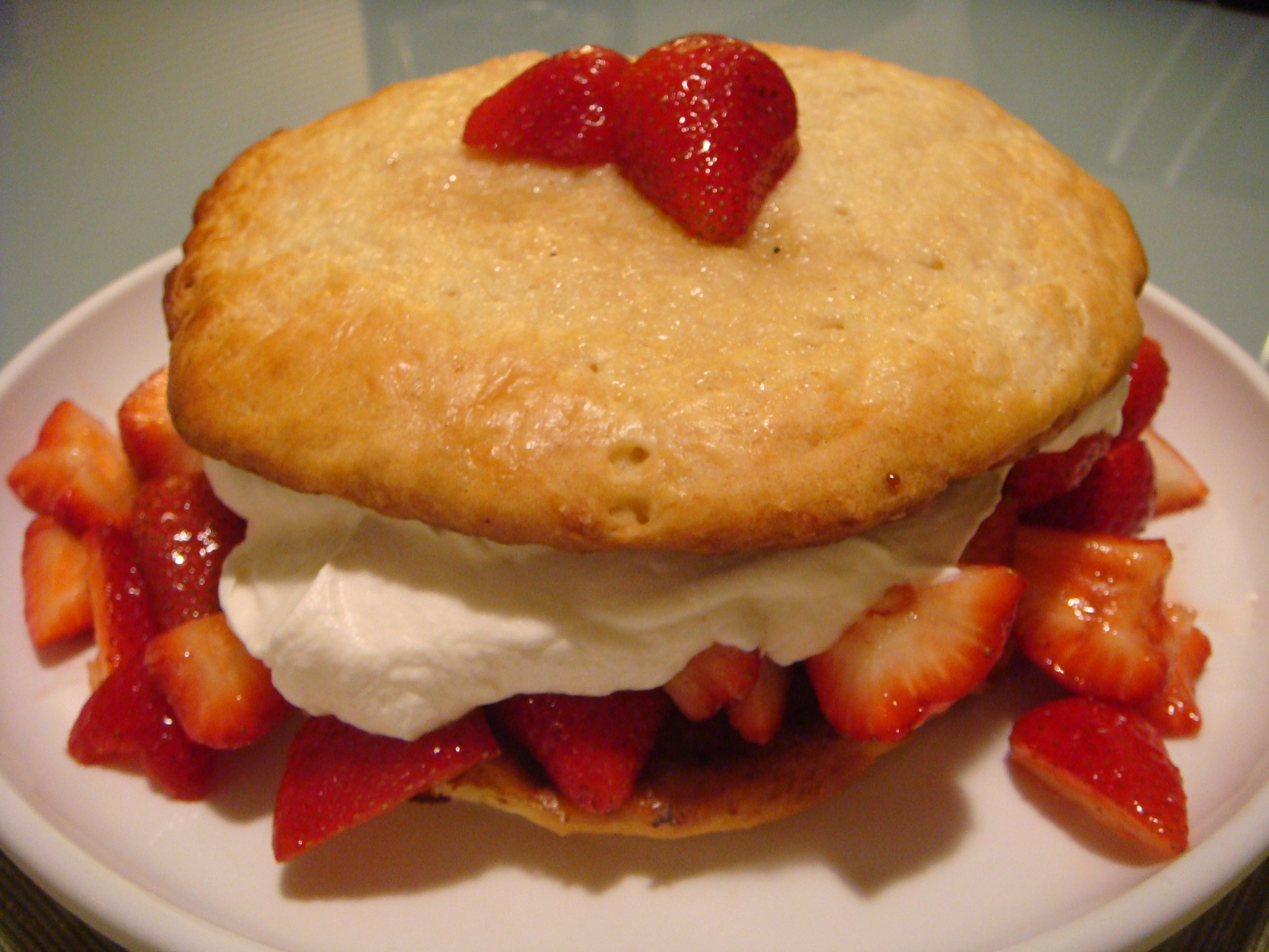 Strawberry shortcake on white plate.